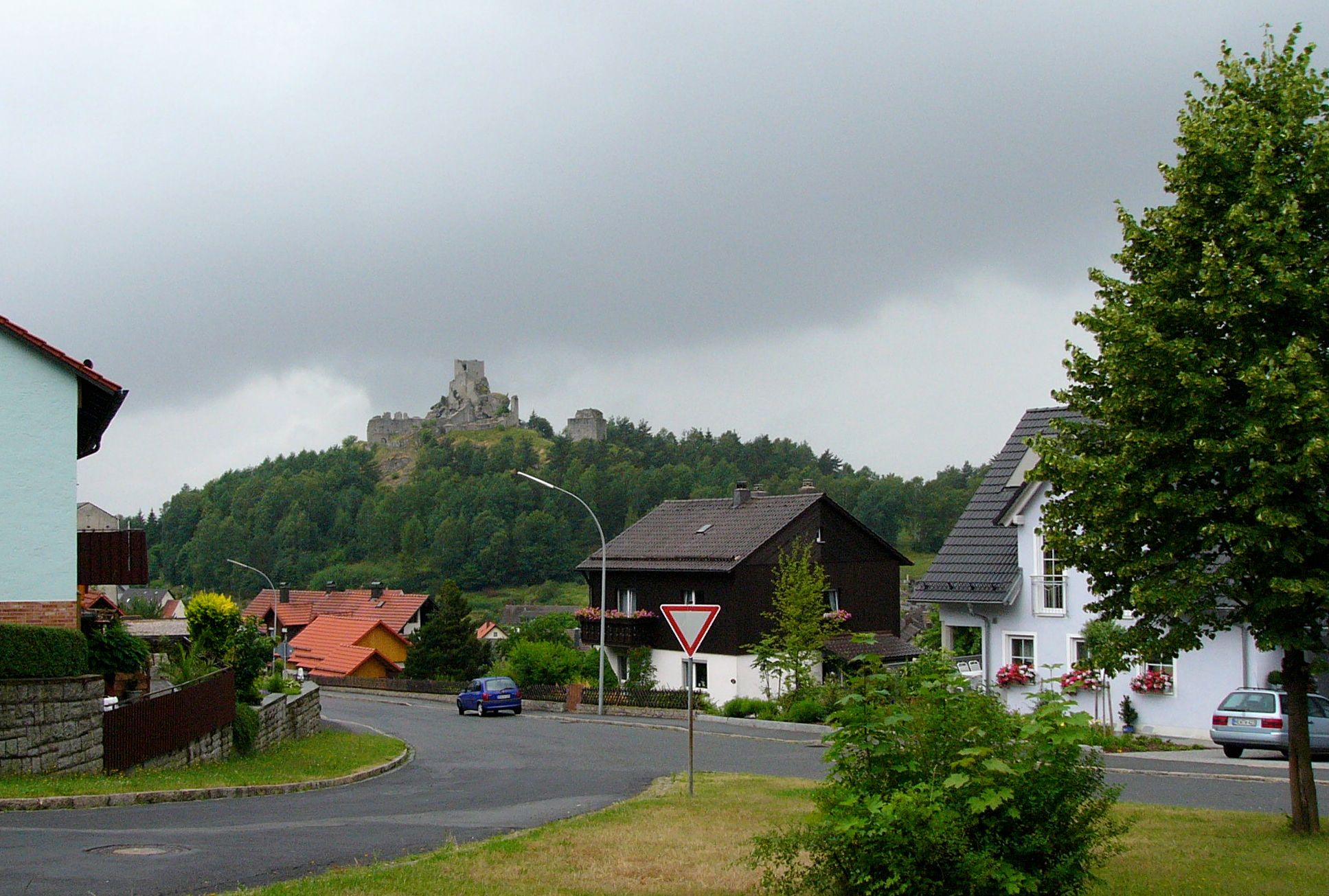 Castle Falkenberg is situated within the village Falkenberg, Bavaria, Germany.